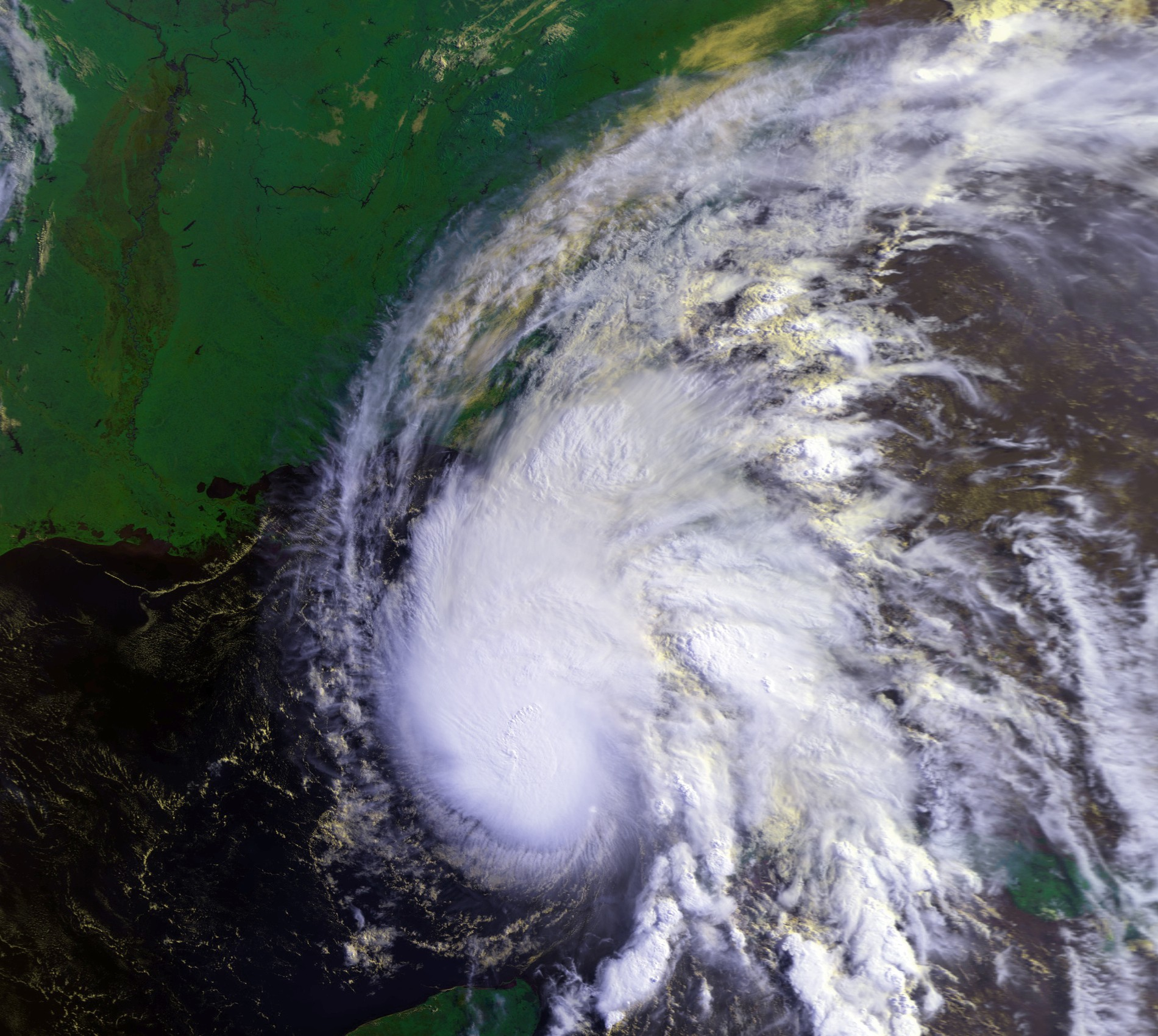 Hurricane Allison at peak intensity on June 4 at 1313 UTC. This image was produced from data from NOAA-12, provided by NOAA. Maximum sustained winds were about 75 mph at this time.